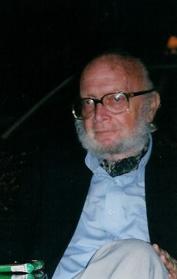 Rick Birman -Israeli Jazz Pianist.